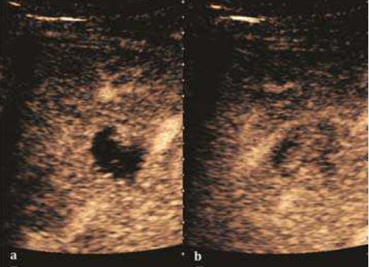 Contrast-enhanced ultrasound of a hepatic hemangioma.